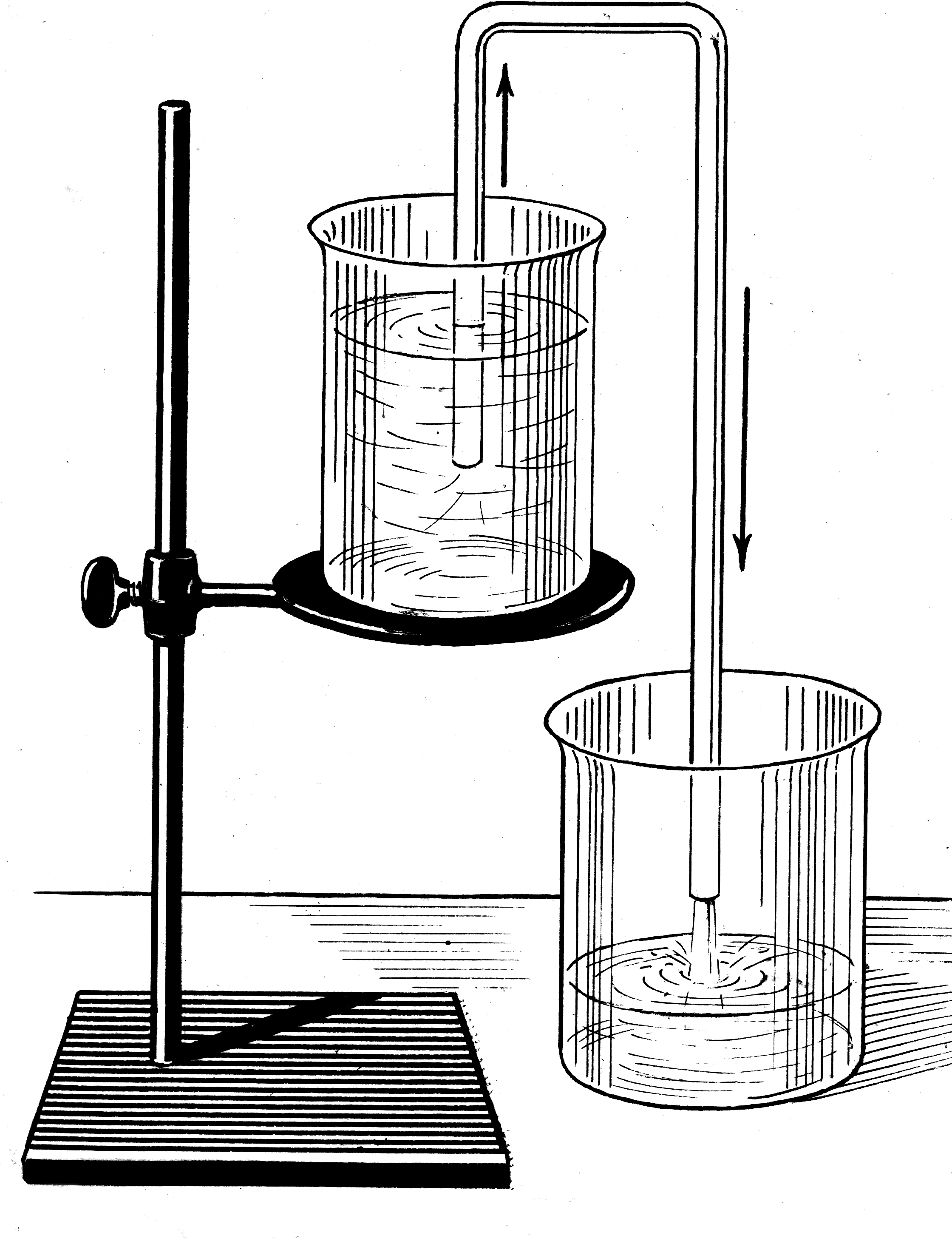 Line art drawing of siphon.